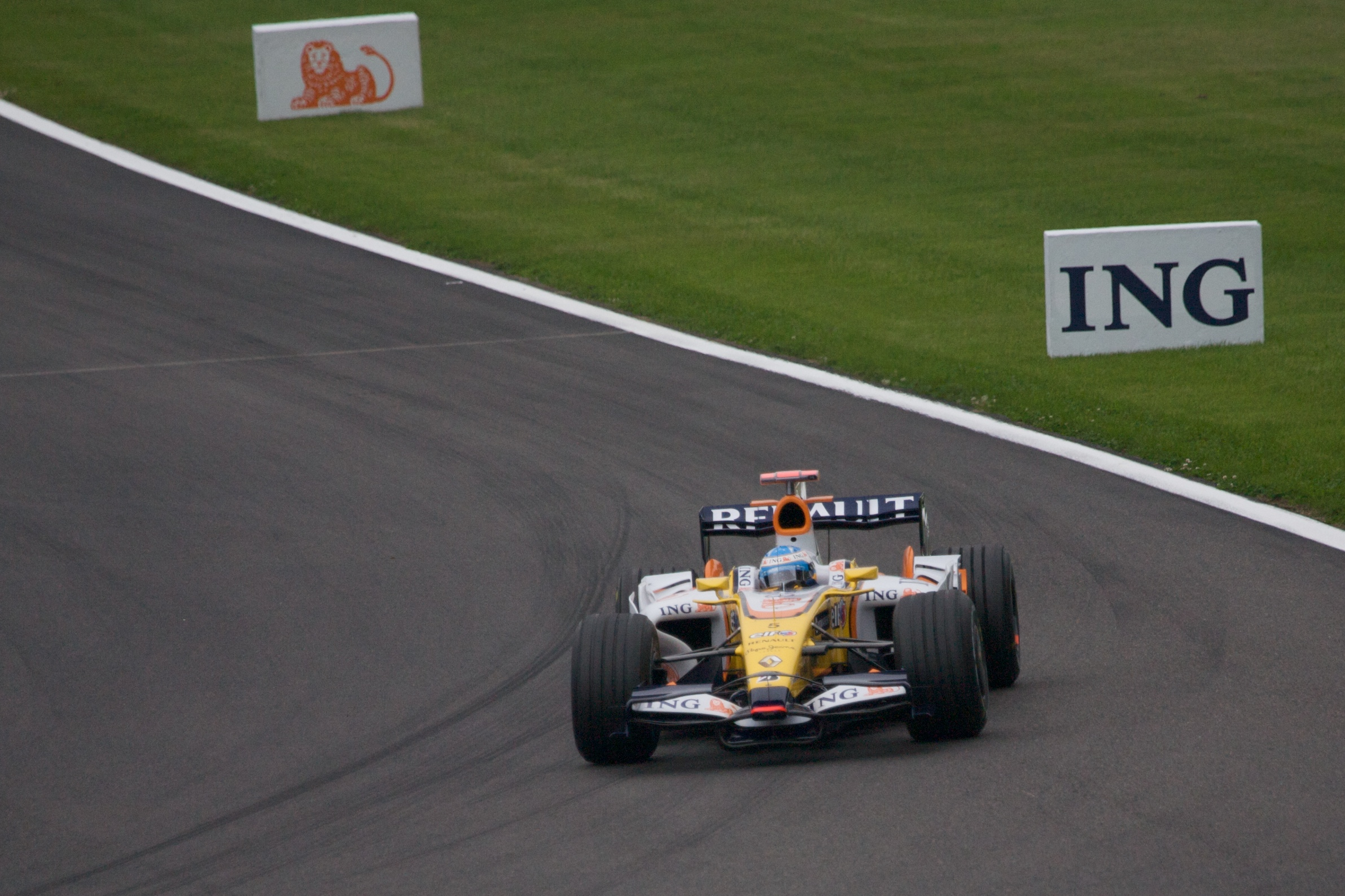 Fernando Alonso driving for Renault F1 at the 2008 Belgian Grand Prix.